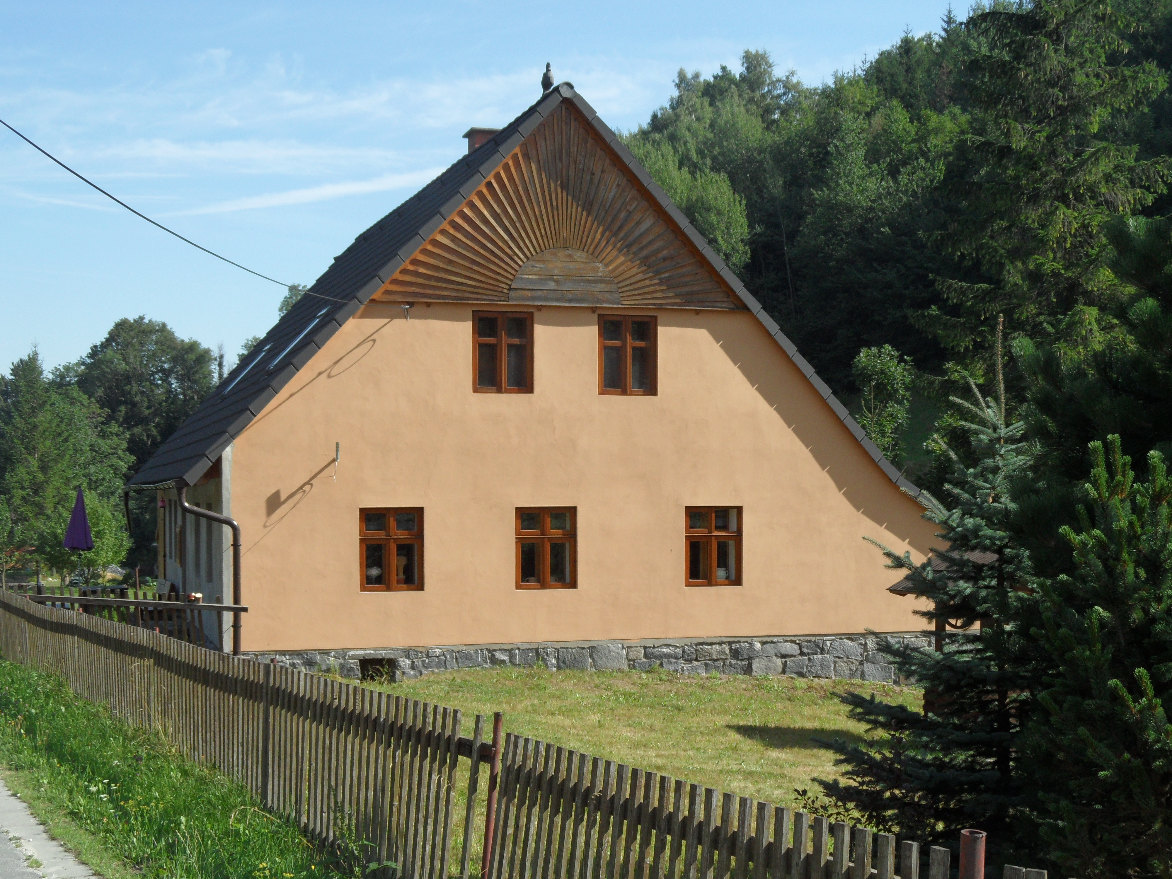 Polka_(Vápenná) A. House with Fence. Jeseník District, the Czech Republic.